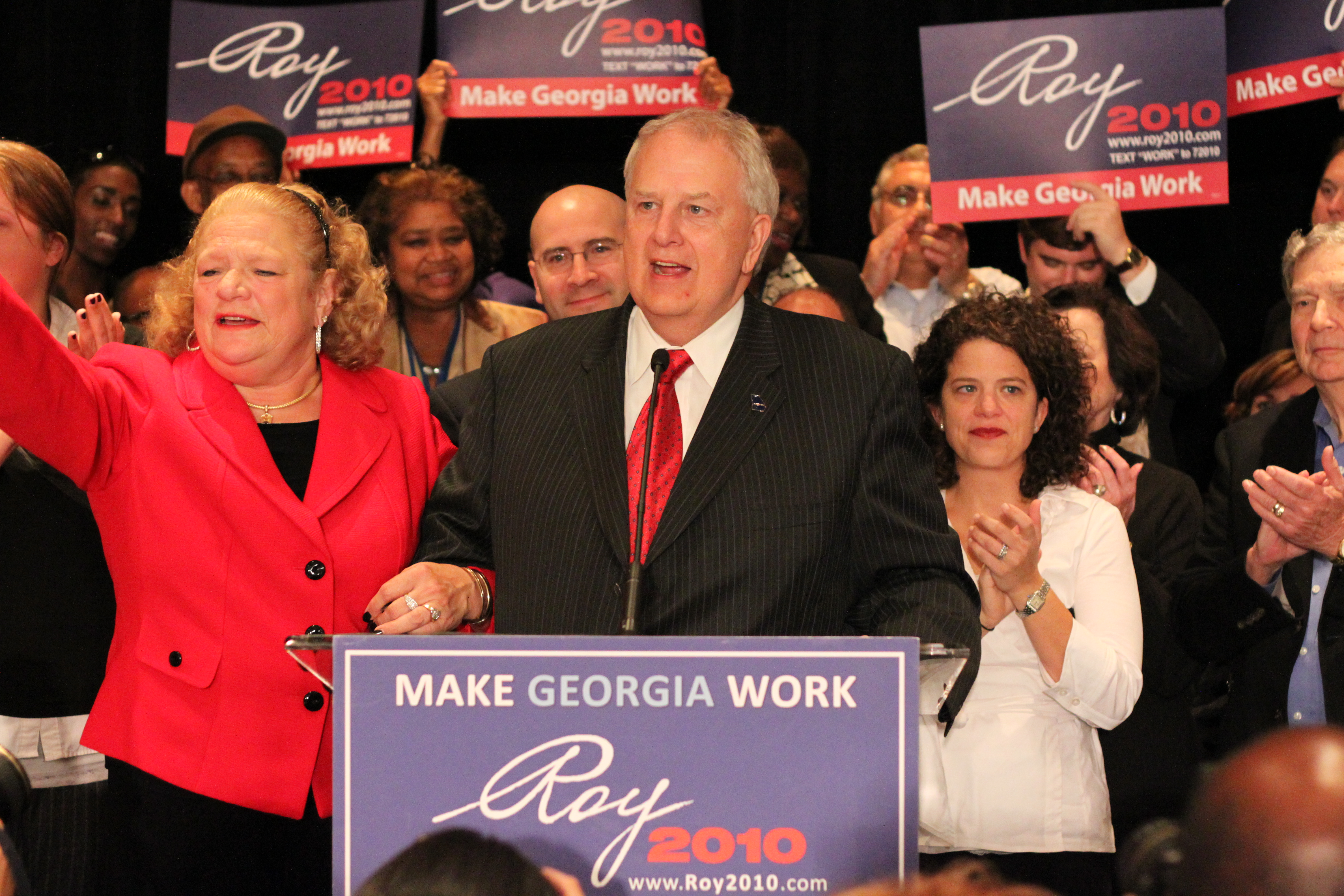 Roy Barnes gives a speech after failing to secure the position of Georgia's Governor in the 2010 midterm election.